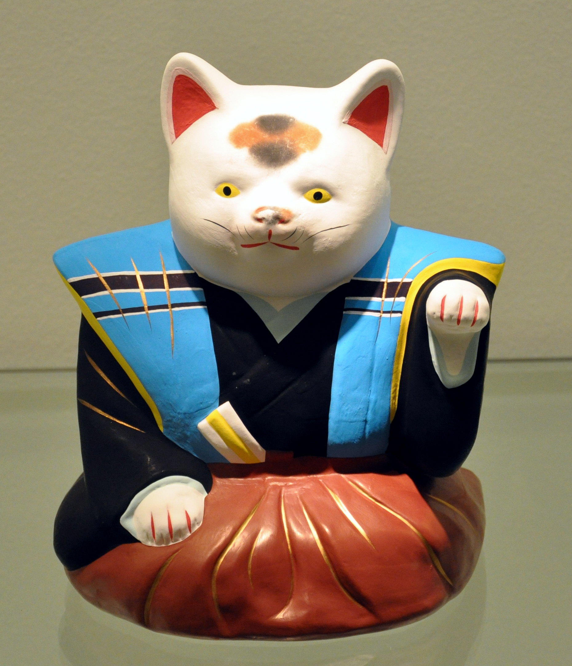 Fushimi clay doll; made by Tanka; Exhibition Waza - Traditional Crafts from Kyôto at Museum für Angewandte Kunst, Frankfurt am Main, Germany, 2011.